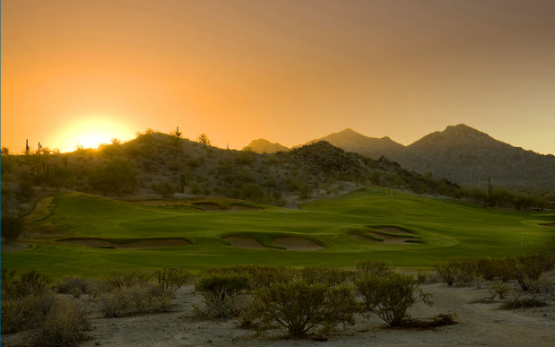 The Golf Club of Estrella